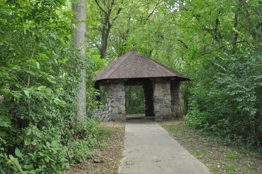 "Witches Tower", a CCC-built shelter in Blackhawk State Park, Wildlife Preserve Area (Area A), near Lake View, Iowa.